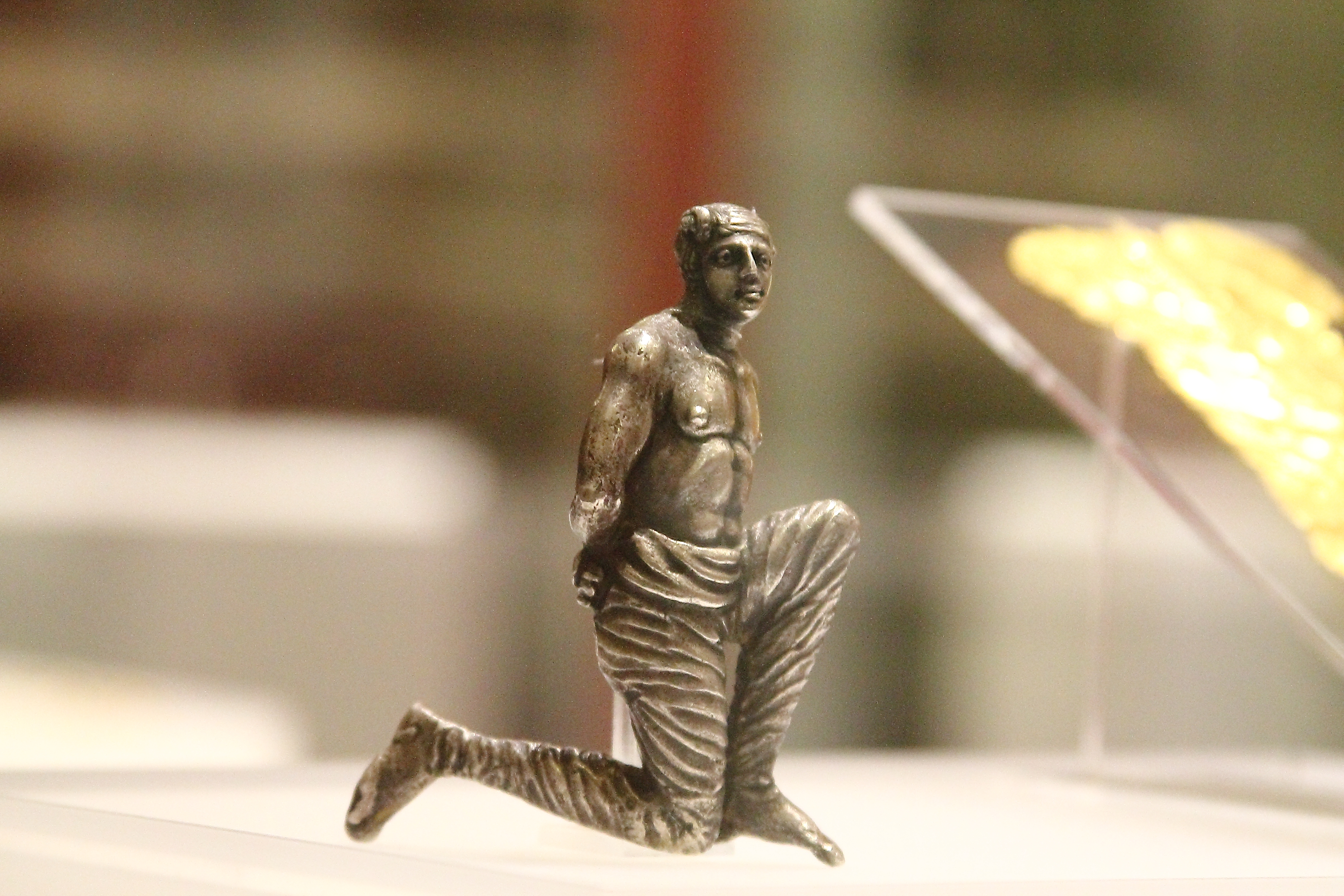 Roman POW. Romanian National History Museum Temporary Exposition.